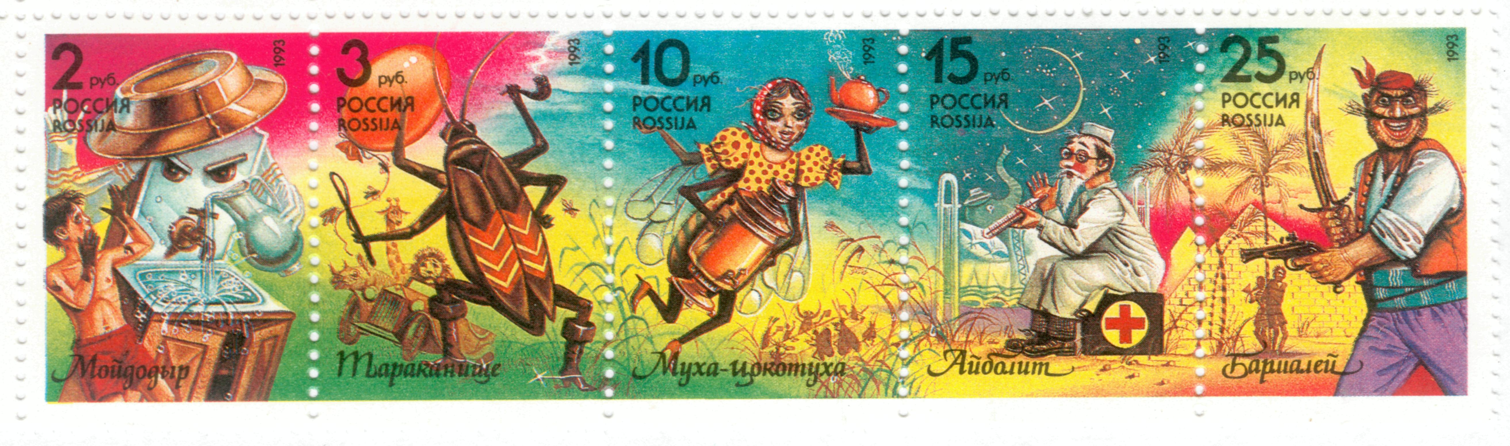 Stamps of Russia.Characters of K.I.Tchukovsky. 1993